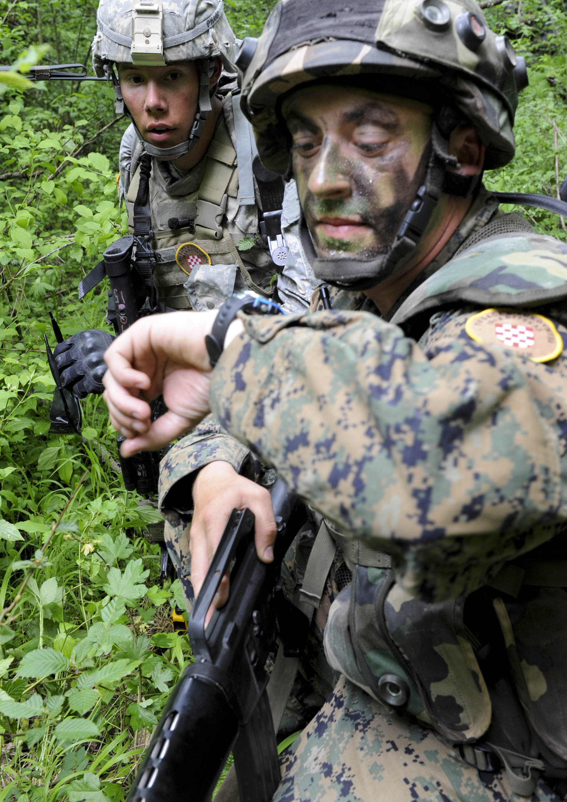 Pvt. Jacob Pharr, a radio operator with U.S. Army Europe’s 1st Squadron, 2nd Cavalry Regiment, and his Bosnian-Herzegovinian partner check their mission time during an ambush Situational Training Exercise during Immediate Response 2012 held at the Slunj Training Area 1 June. Immediate Response 2012 is a multinational tactical field training exercise that will involve more than 700 personnel primarily from the U.S. Army Europe’s 2nd Calvary Regiment and Croatian armed forces, with contingents from Albania, Bosnia-Herzegovina, Montenegro and Slovenia. Macedonia and Serbia will send observers to the exercise. The exercise is a part of U.S. European Command's joint training and exercise program designed to enhance joint and combined interoperability between the U.S. Army, U.S. Air Force and partner nations, and will help prepare participants to operate successfully in a joint, multinational, interagency, integrated environment. (U.S. Army Europe photo by Staff Sgt. Joel Salgado/Released)